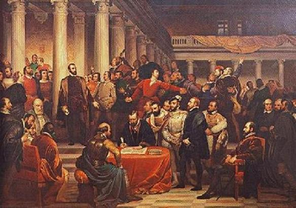 The Compromise of the Dutch nobles